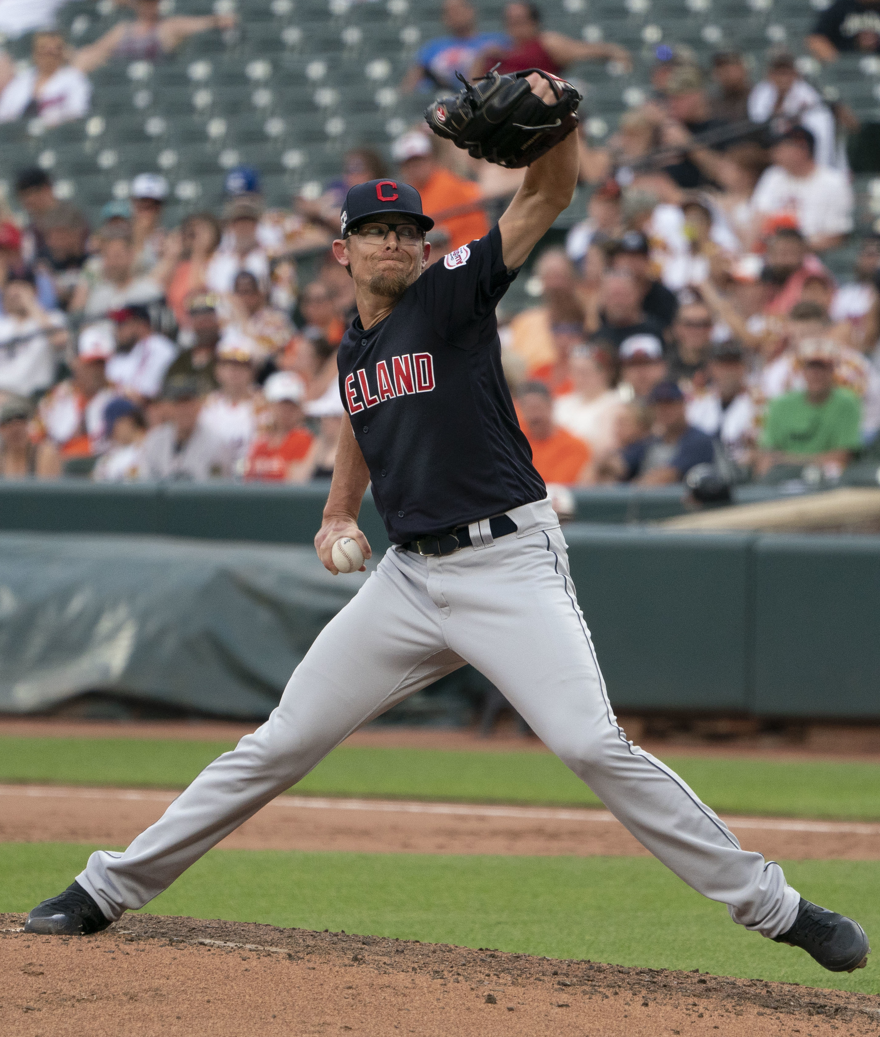 Tyler Clippard delivers a pitch for the Cleveland Indians during a 2019 game at Camden Yards in Baltimore